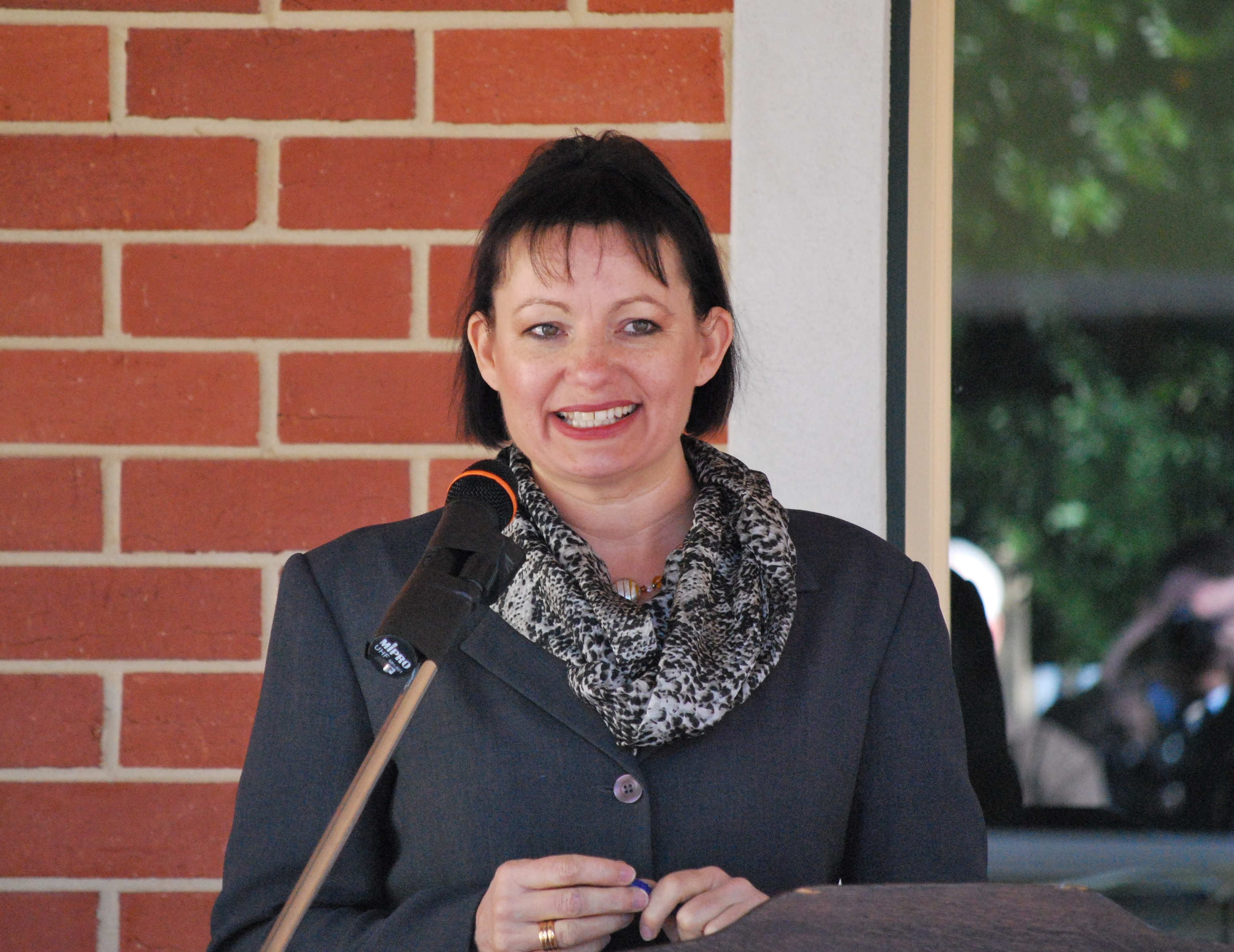 Sussan Ley speaking at the opening of the Jerilderie, New South Wales Library